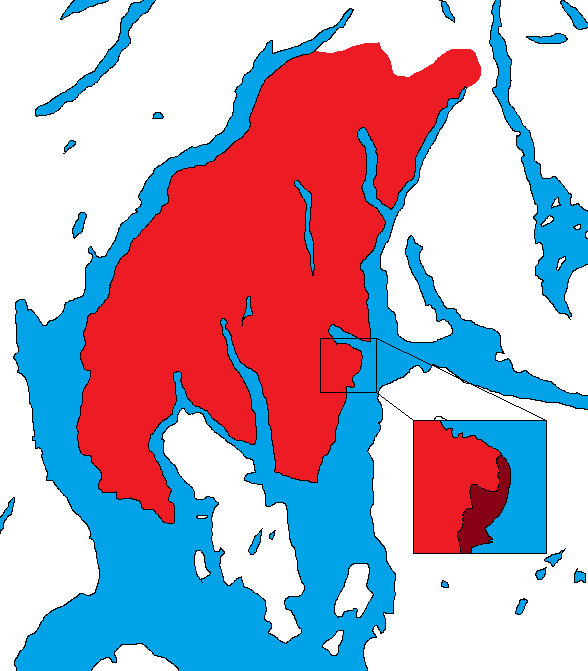 Locator map for Cowal Drawn by me